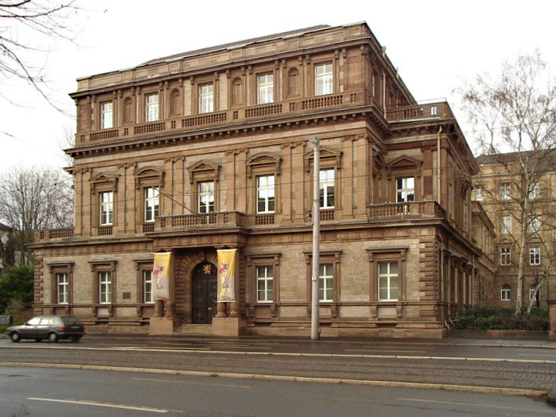 Kassel, Ständehaus, from south east, 1834-36 by Johann Christian Ruhl.